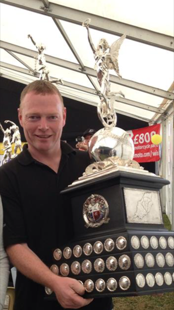 Gary Carswell holding the Senior MGP Trophy